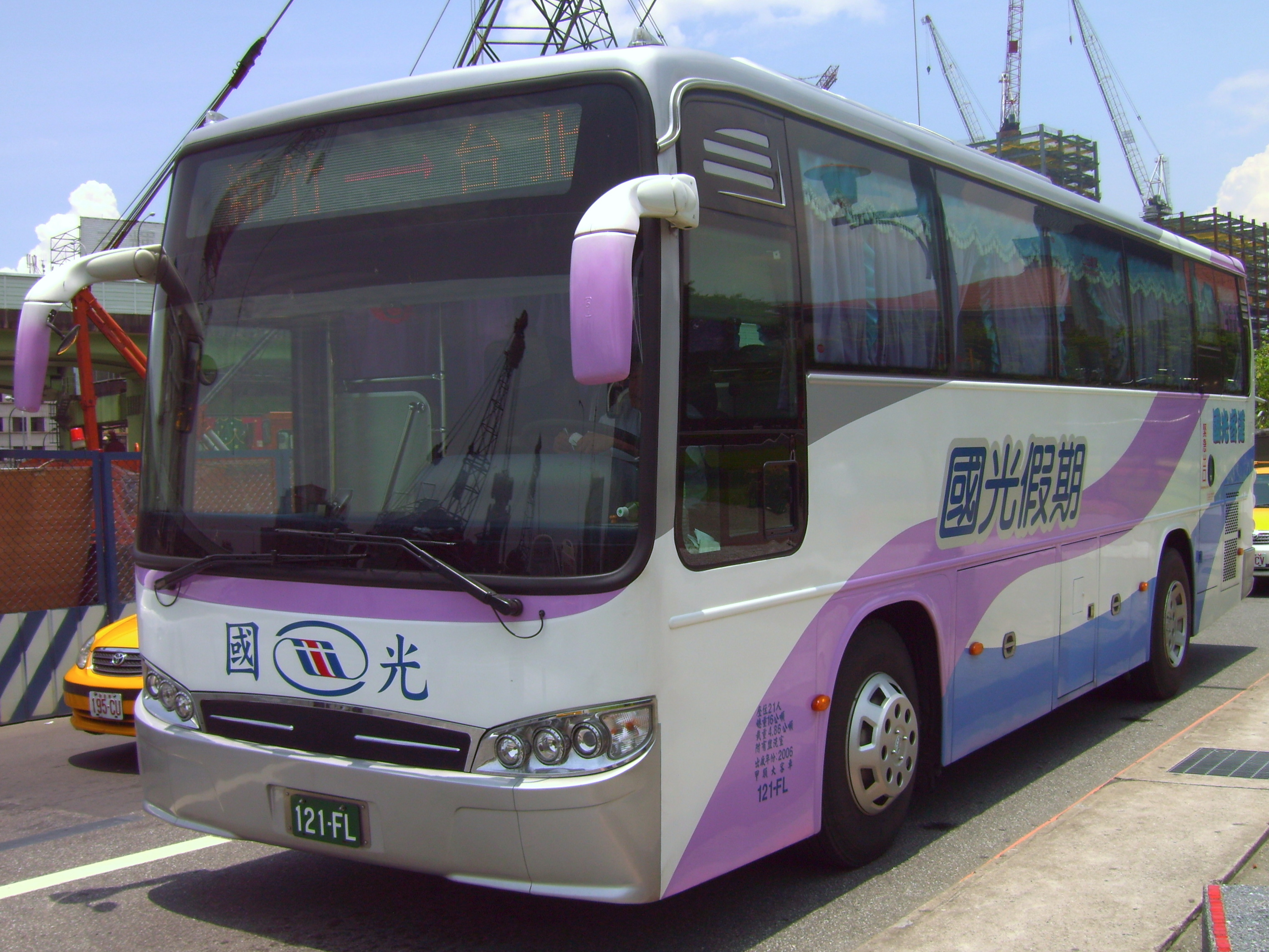 Kuo-Kuang Motor Transport Company Ltd. BH095 "Kuo-Kuang Holiday" Bus.